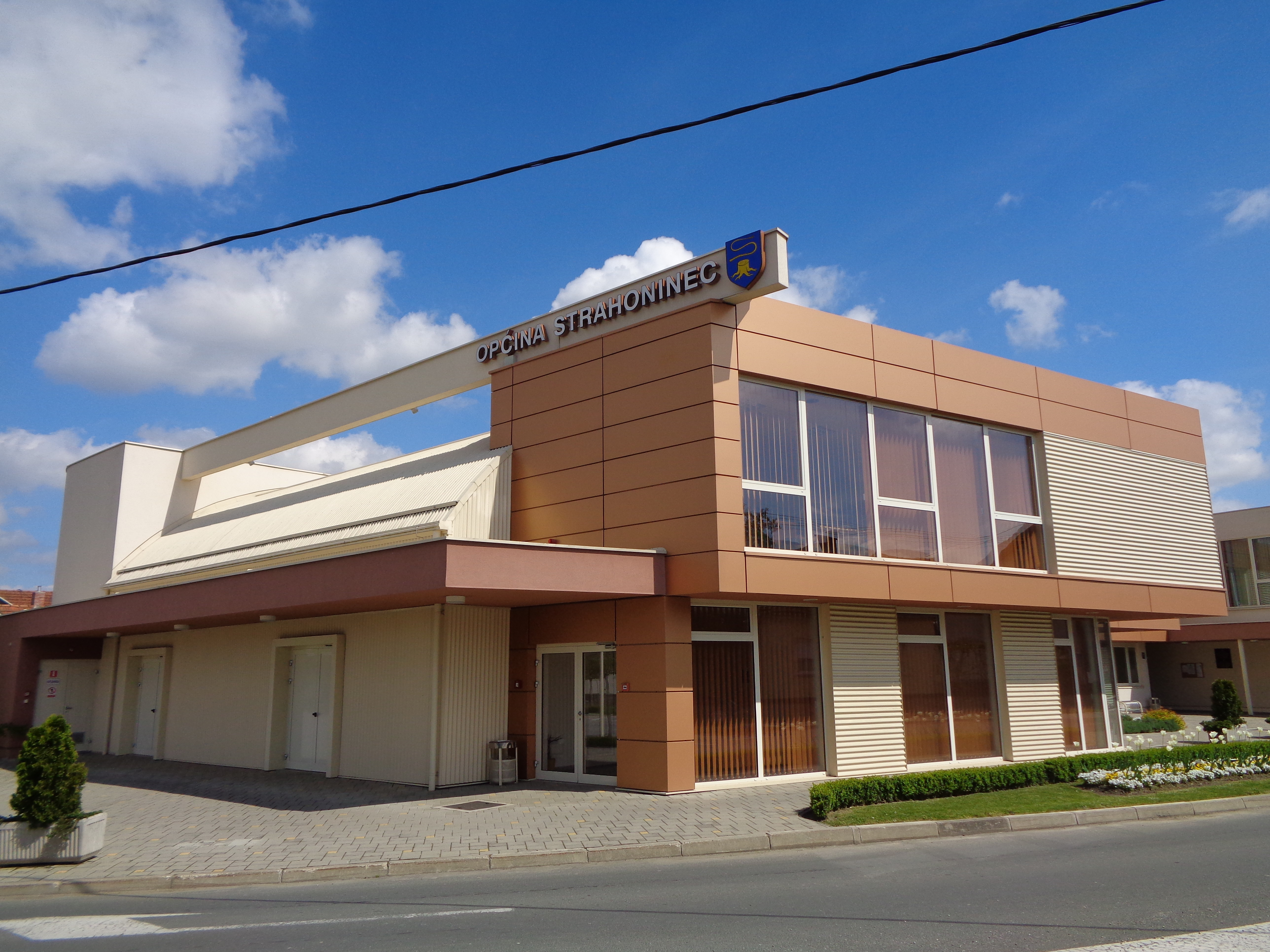 Strahoninec, Medjimurje County, Croatia - Municipal building